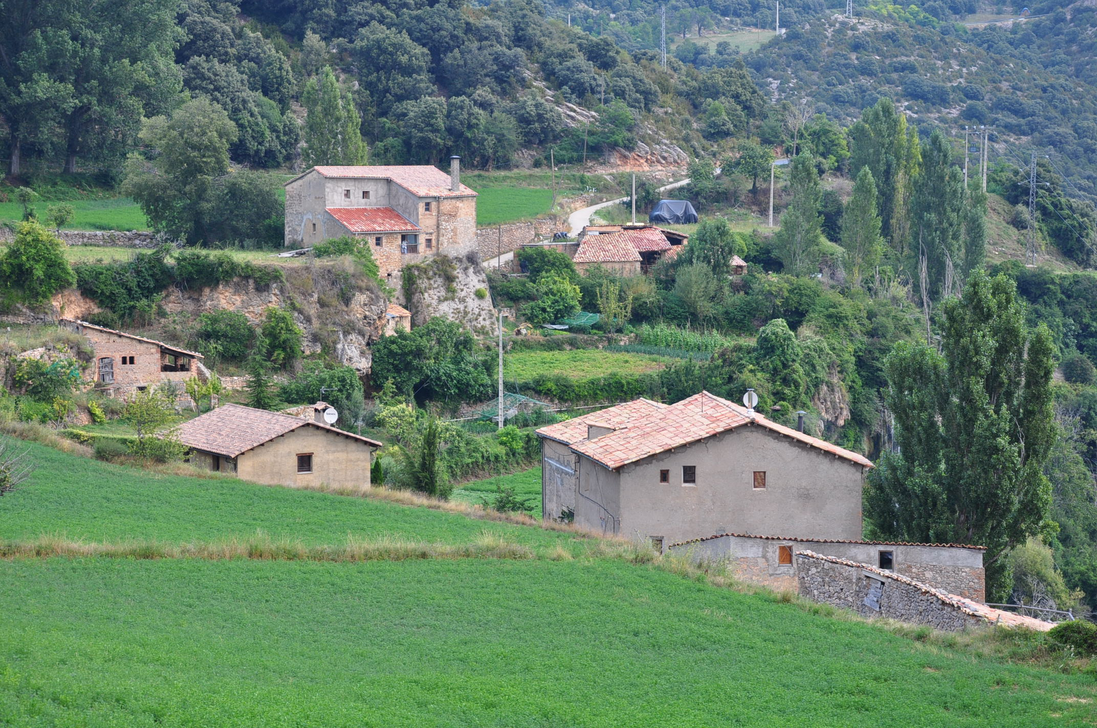 The hamlet of El Racó in the Spanish Pyrenees (Municipality of Odèn, Comarca of Solsonès, Catalonia).